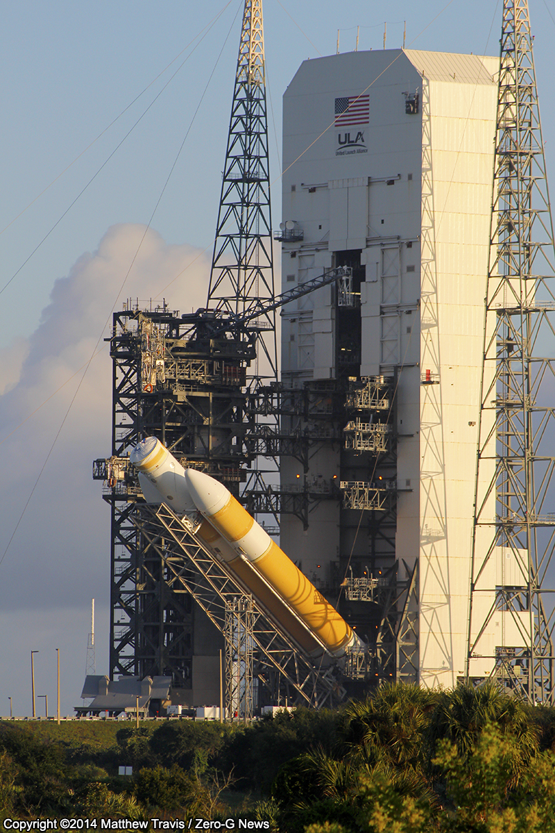 A United Launch Alliance Delta IV Heavy rocket is erected on the pad at Space Launch Complex 37 in preparation for the Exploration Flight Test 1 (EFT-1) mission. EFT-1 will be the first flight test of NASA's Orion spacecraft. Photo Credit: Matthew Travis / Zero-G News